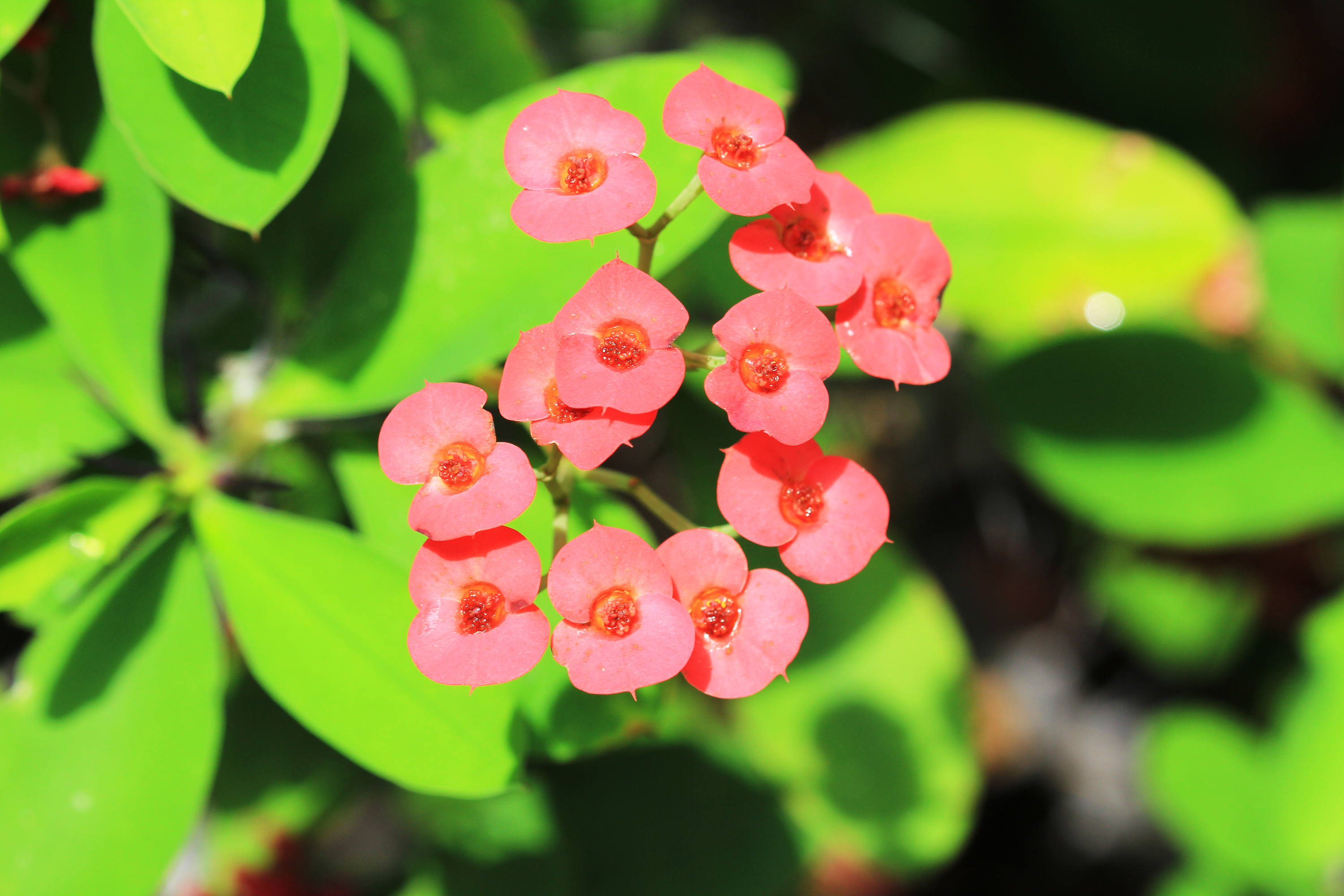 Flower of suculent plant Euphorbia milii, (Euphorbia milii) in The Botanical Gardens of Charles University, Prague, Czech Republic